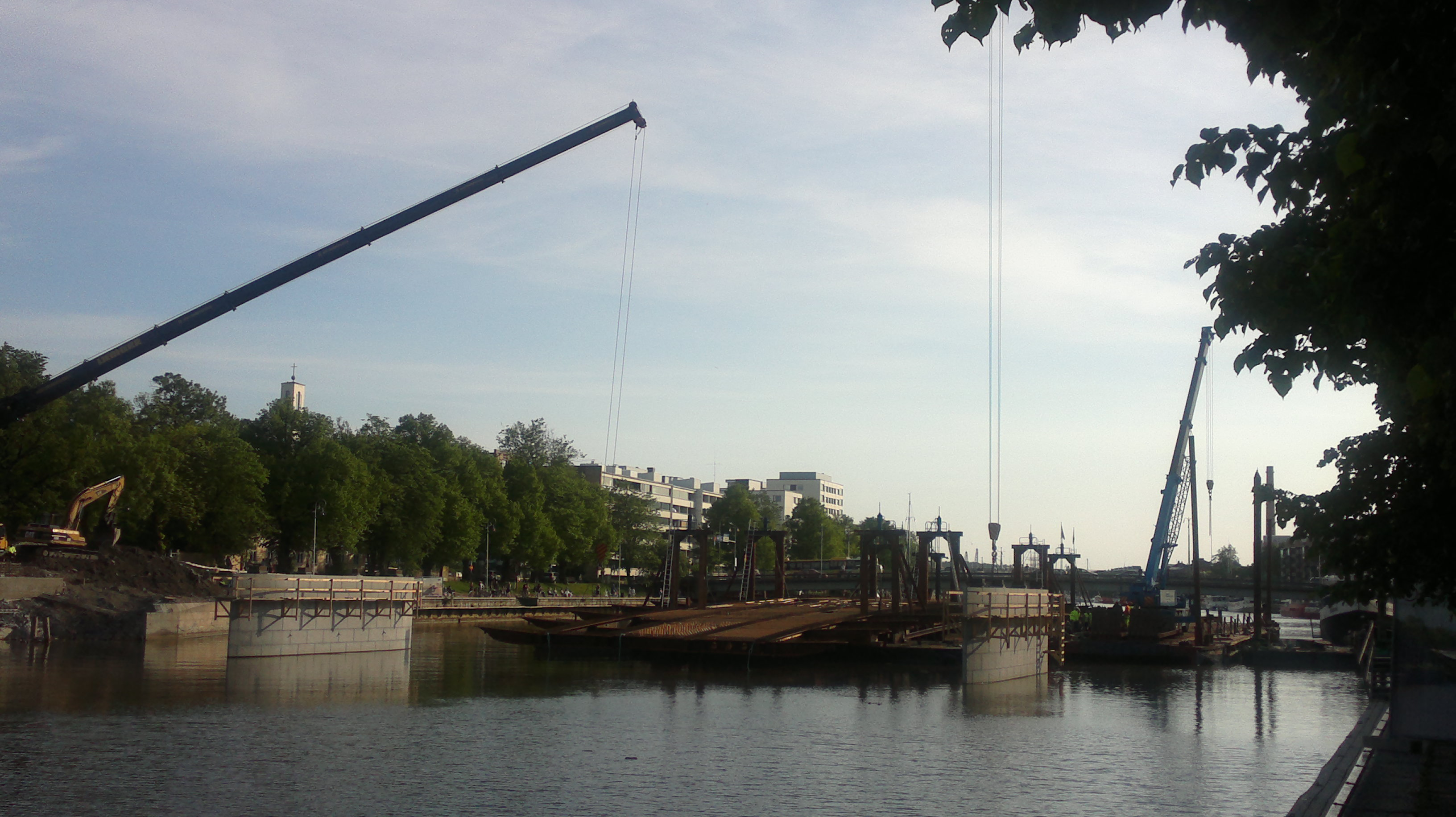 The frame of the new Myllysilta is brough to the construction site.